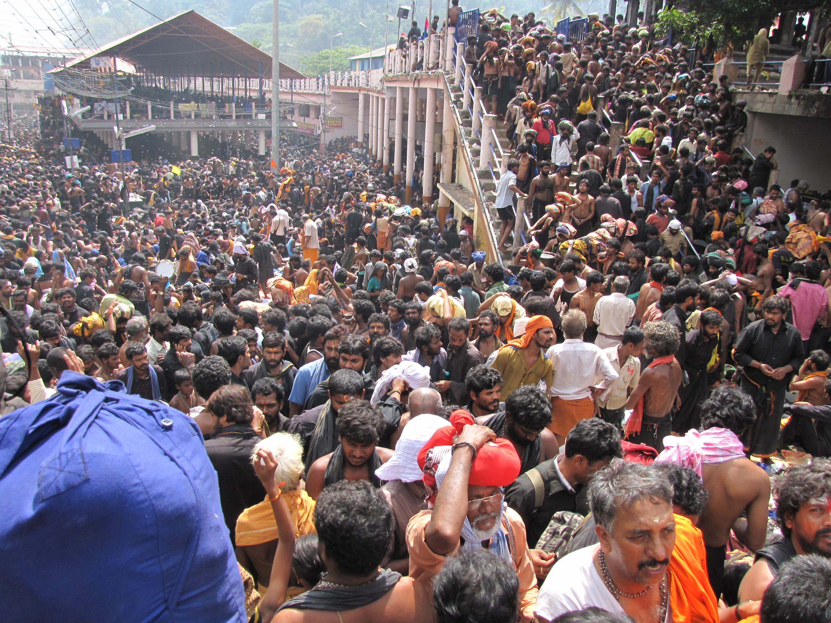 Rush at Sabarimala. Swamis gather at sannidhanam to get glimpse of divya makara jyothi.